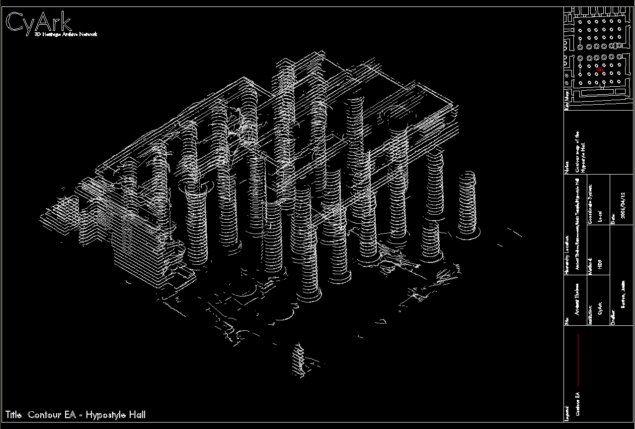 Contuour Image of Thebes' Ramesseum Hypostyle Hall, Egypt, cut from a Laser Scan. A hypostyle is an ancient architectural invention consisting of a dense grid of columns. It was used in Egypt to build large spaces in temples and palaces where people could gather. However, in the Ramesseum, only high priests and pharaohs were allowed into the hypostyle hall and sanctuary of the sacred temple. The pillars are carved with stories that glorified Ramesses as the bodily incarnation of the god Amen, and depict Ramesses making offerings to the gods. The lotus bud pillars are the stone version of pillars made from papyrus-reed and clay, which were the earliest building materials in the Nile Valley. The hypostyle hall contains clerestory openings, another Egyptian architectural invention, to let in light from the top of the outer walls. No light, however, entered the most sacred sanctuary space of the temple. Three smaller halls behind the hypostyle hall lead the way to the temple's sacred shrine. Today, thirty-four out of the original forty-eight columns remain.